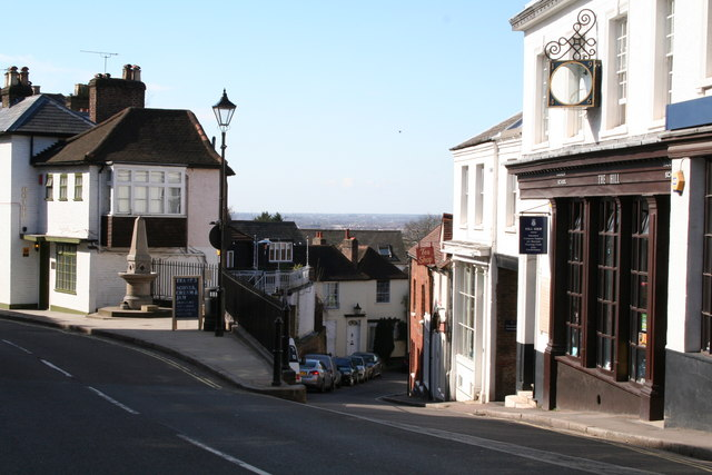 Junction of High Street and West Street, Harrow on the Hill, Middlesex High Street continues round to the left, while down the hill to the right is West Street. For a photograph taken here some 51 years ago, see 363680